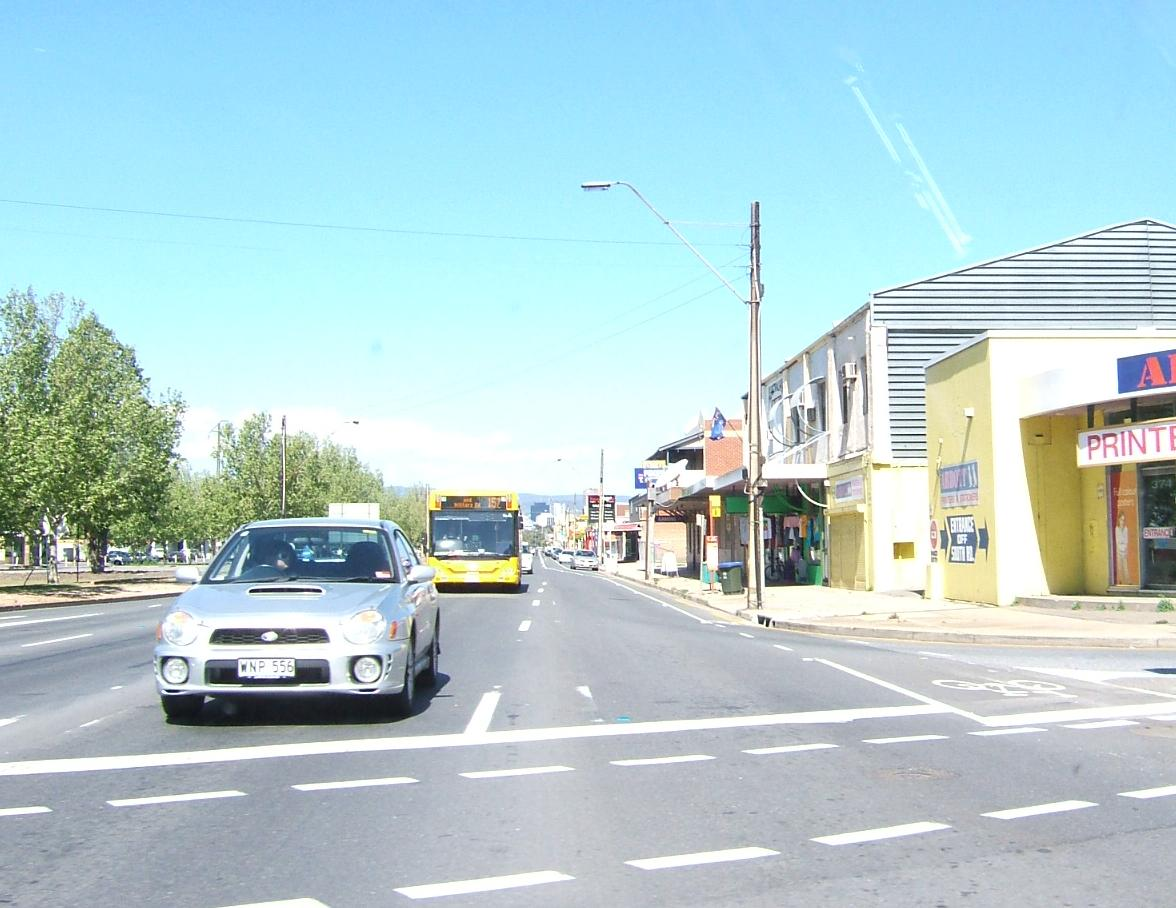 Port Road facing SE at South Road intersection, Hindmarsh, Adelaide.